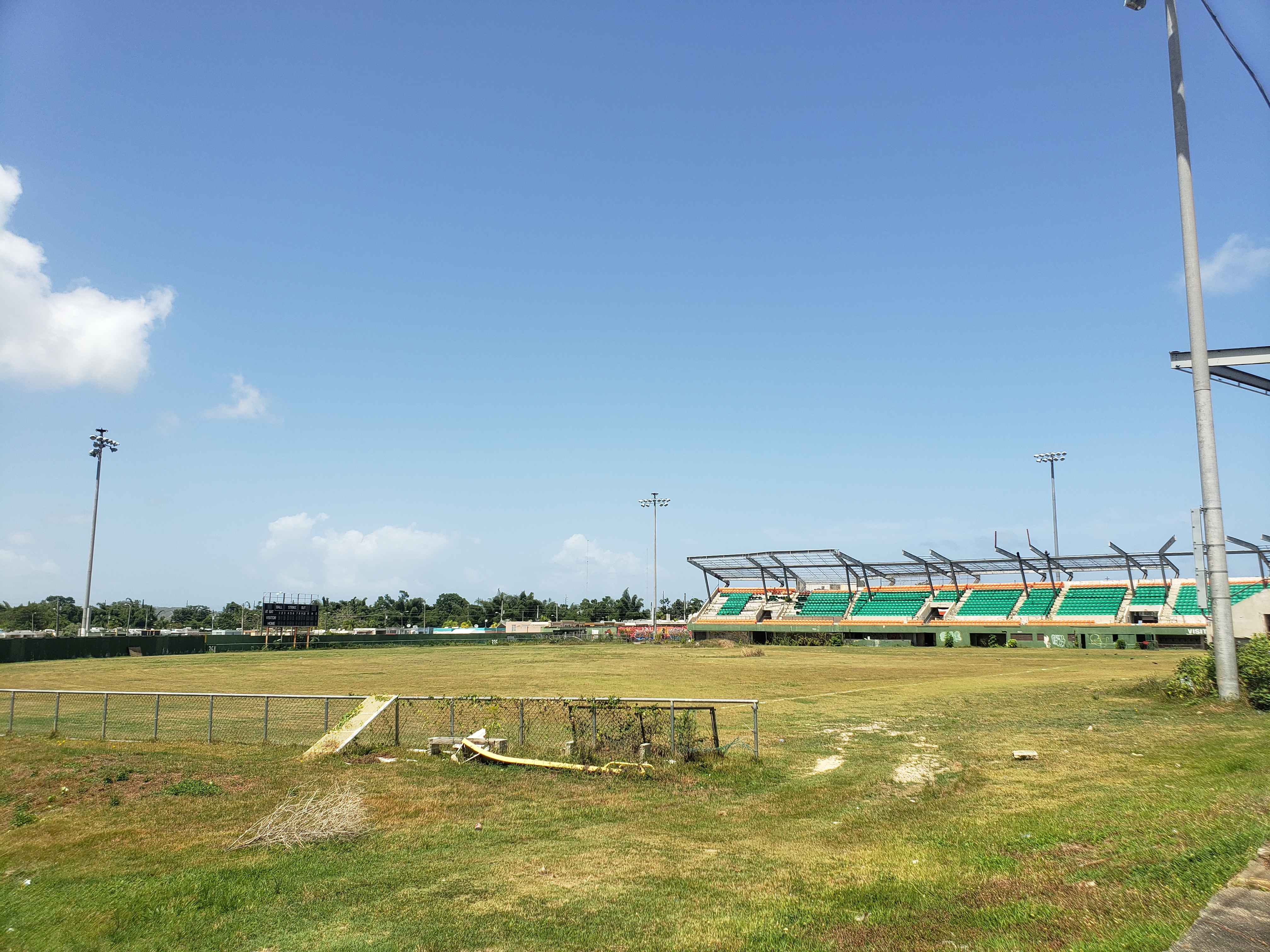 Estadio Félix "Nacho" Millán in Yabucoa, Puerto Rico destroyed by Hurricane Maria